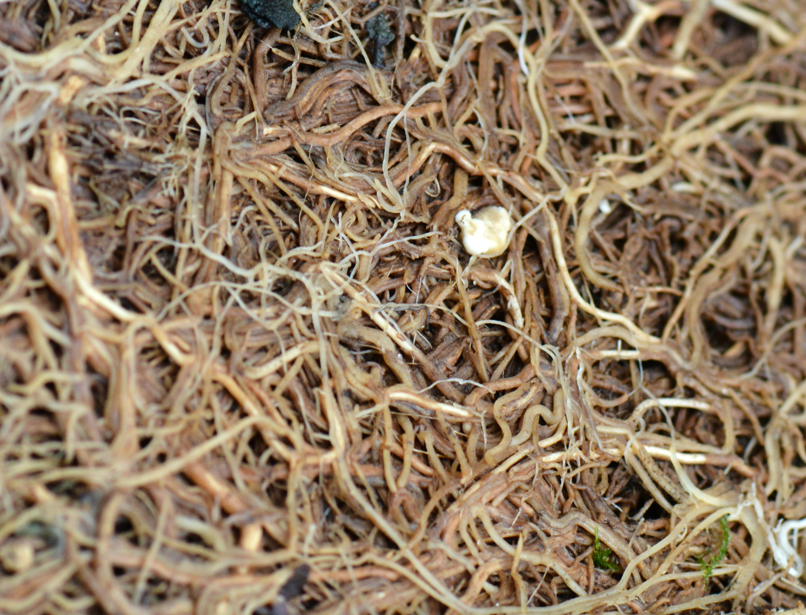 Bottom view (roots) of a plate ivy that delaminated from a brick wall during a heavy rain and light flood the Mid-Deûle River in Lille in May 2016. There also has roots of grasses and other plants in places.